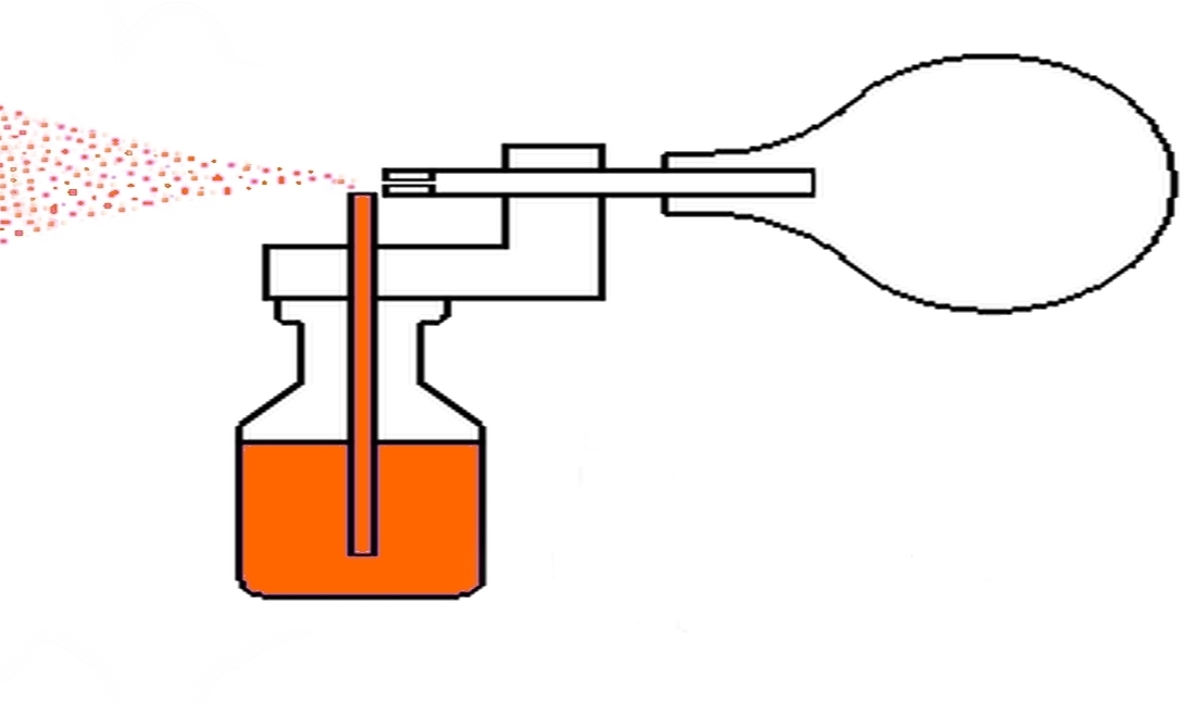 Atomizer working principle